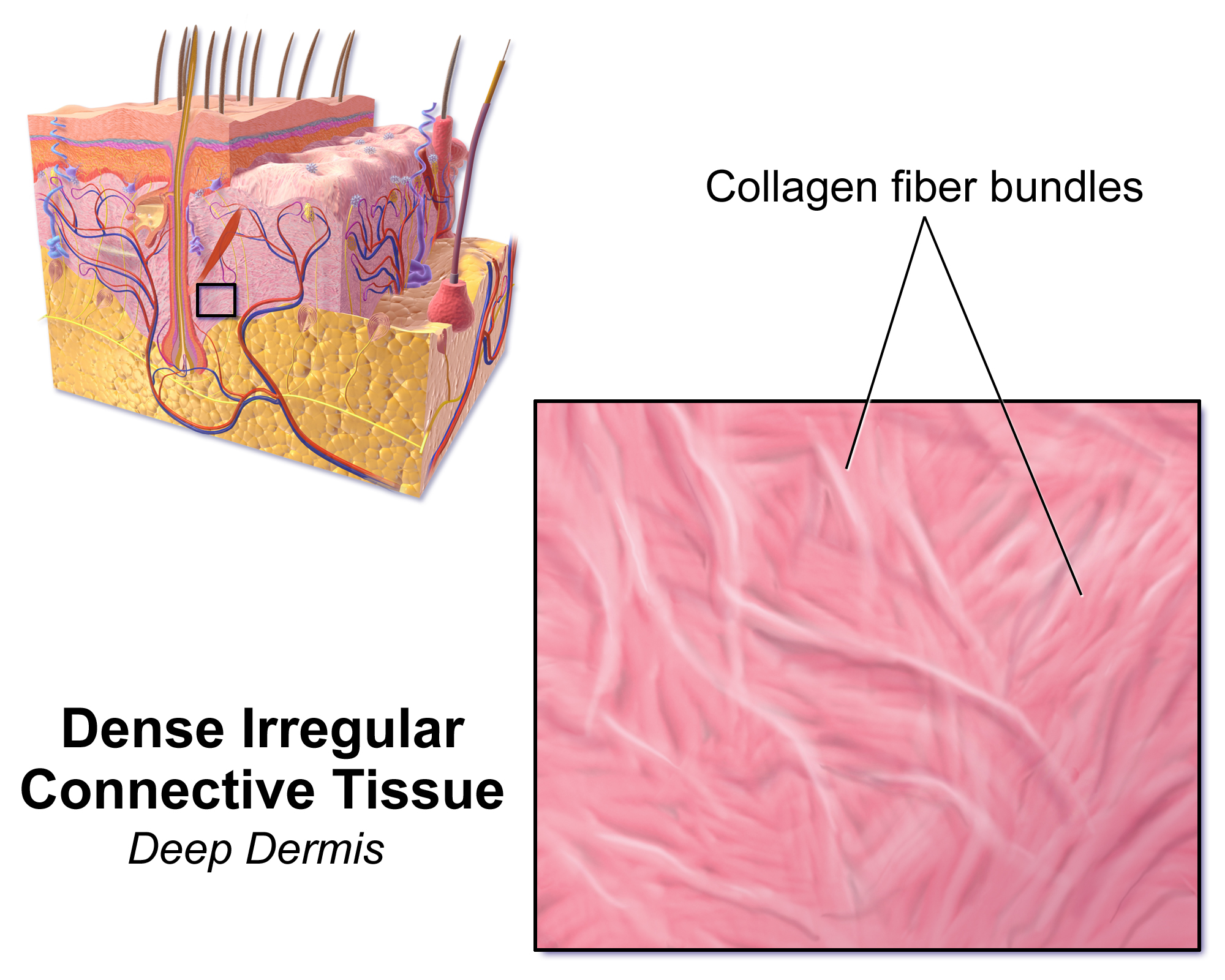 Dense Irregular Connective Tissue. See a full animation of this medical topic.